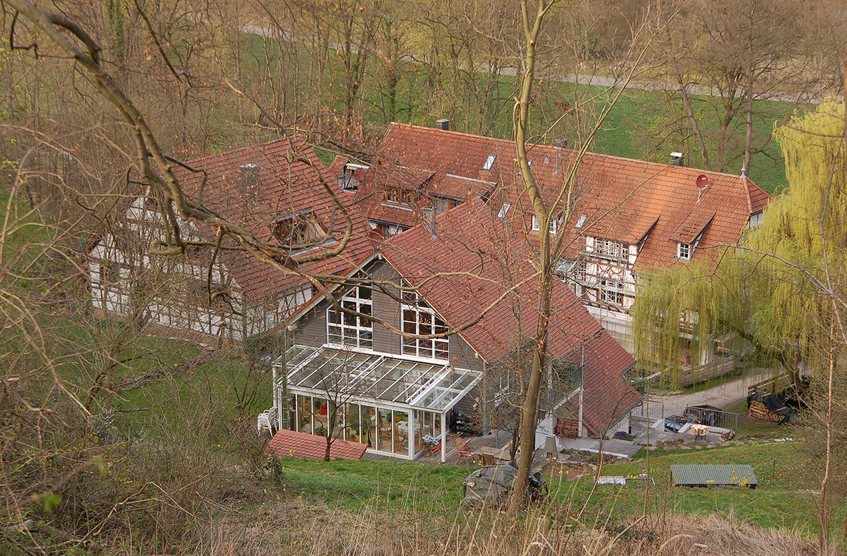 Untere Mühle Markgröningen